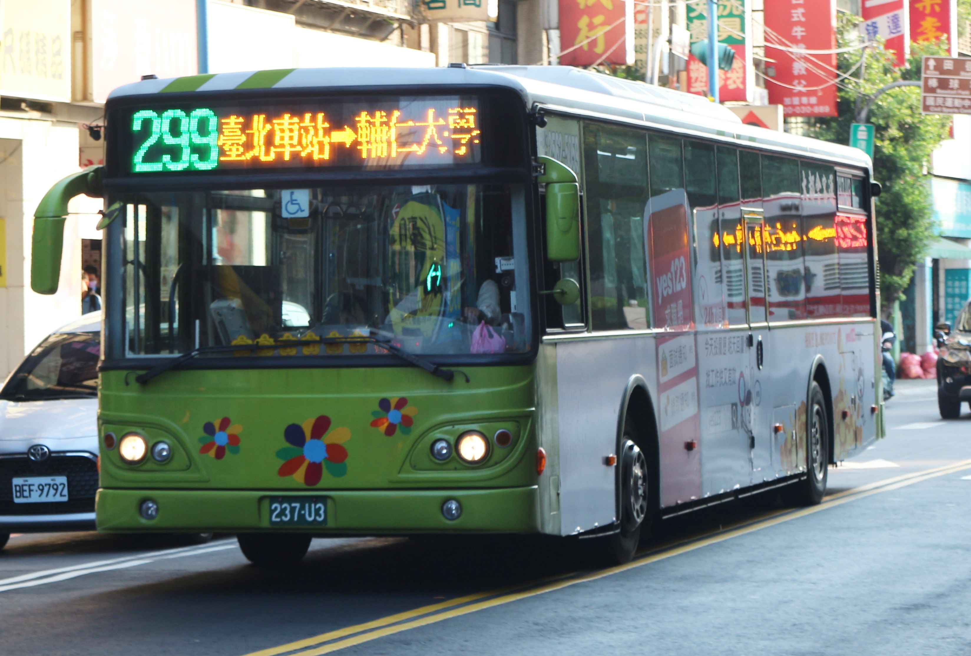 2014 DAEWOO BS120CN 237-U3 299Shuttle